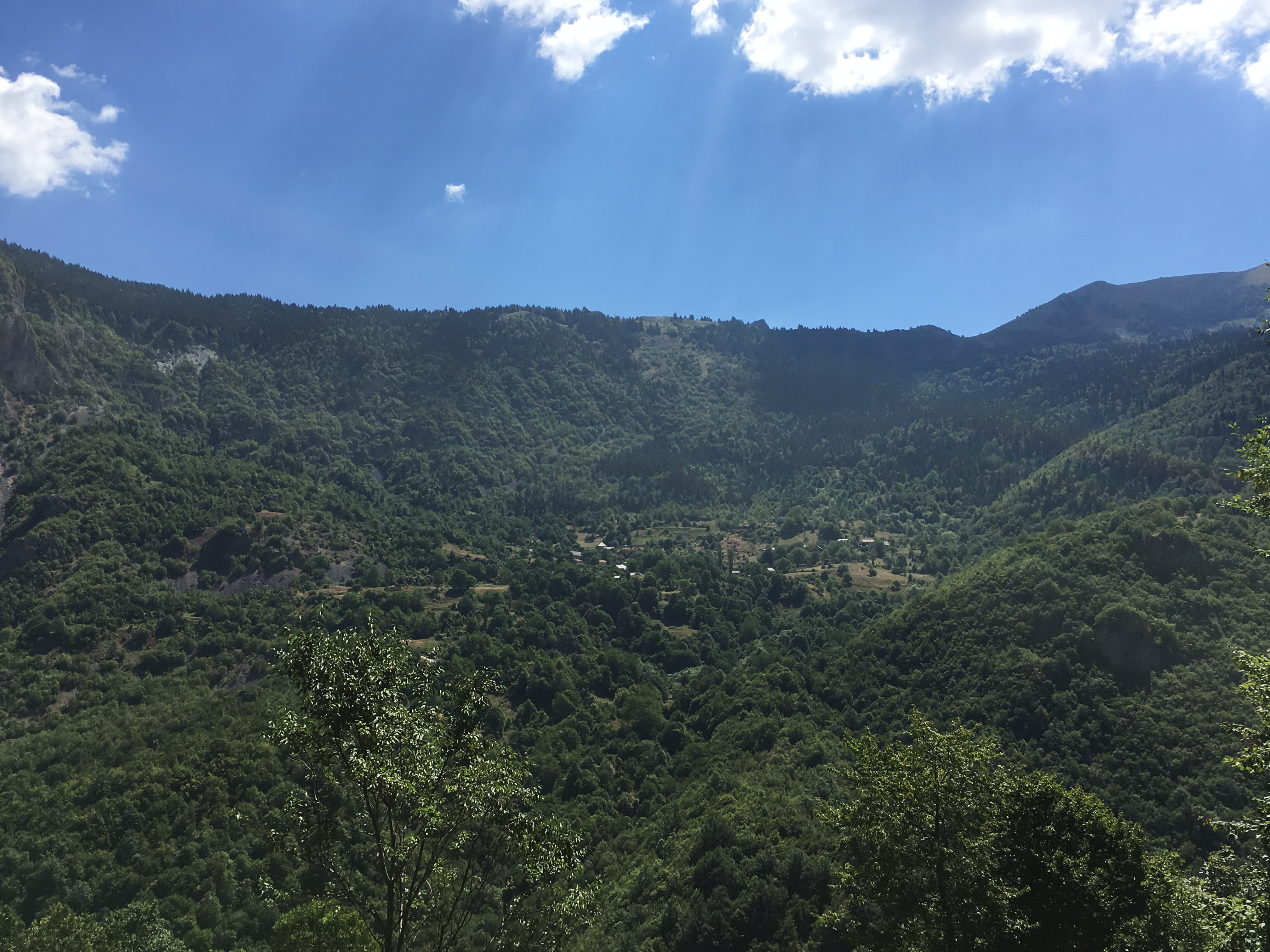 Panoramic view of the village of Sence